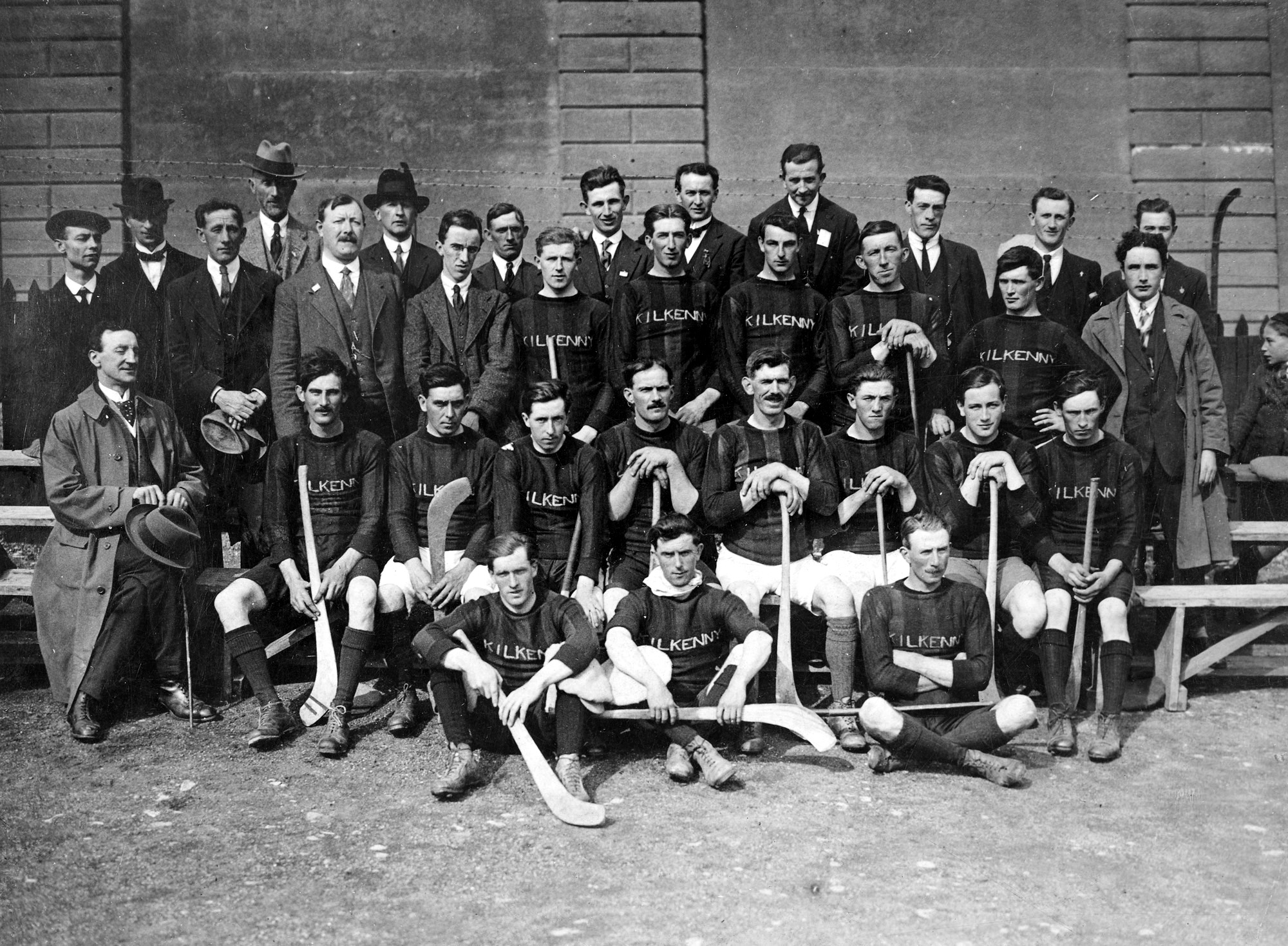 Pictured at Croke Park before playing the Dublin hurlers. From the date, would imagine this was the All-Ireland Hurling Final - can anyone confirm this? Also doubt as to whether Dublin was the opposing team! Date: 26 September 1923 NLI Ref.: HOG93